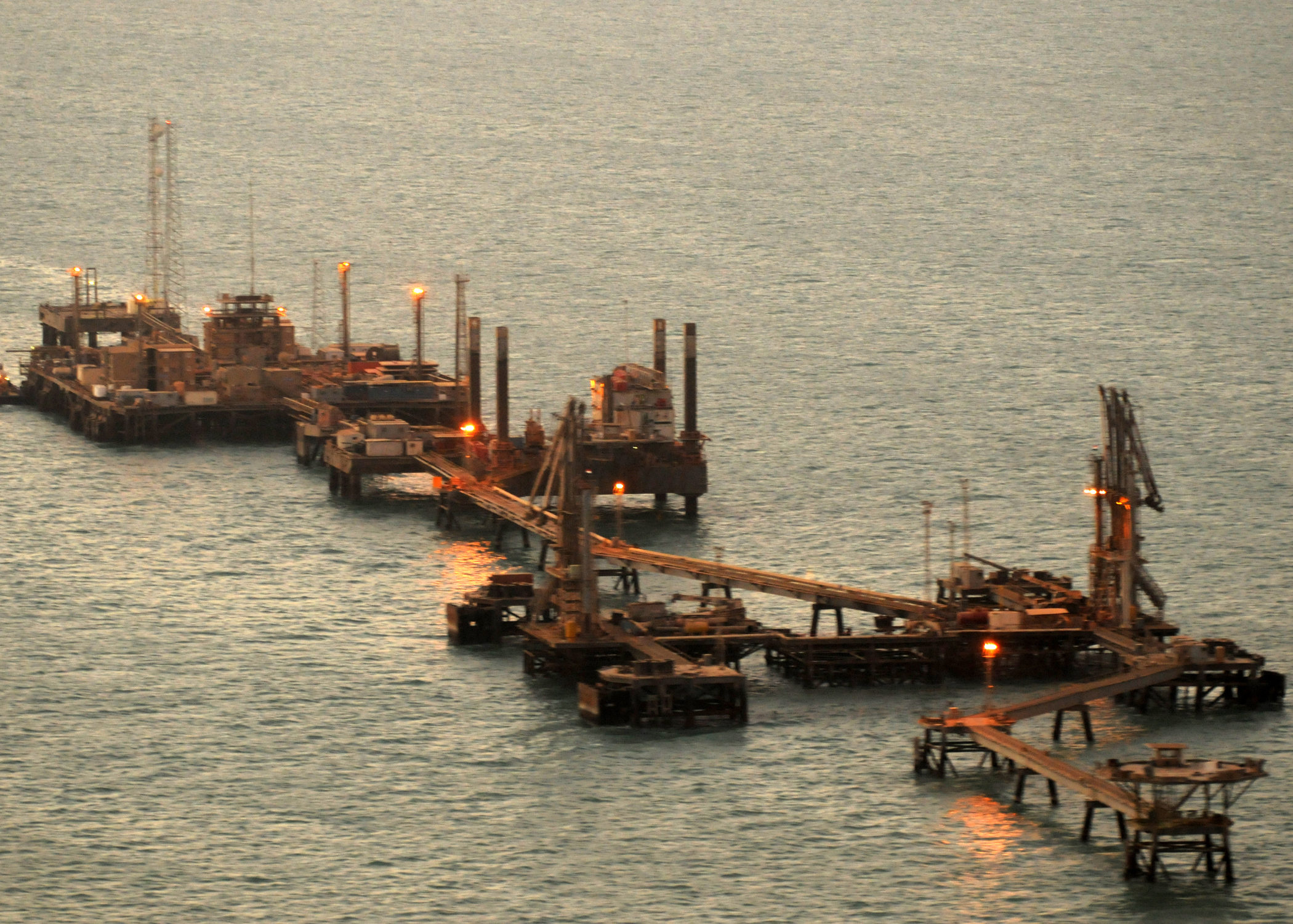 NORTH ARABIAN GULF (October 4, 2008) – Iraq’s Khawr Al Amaya Oil Platform (KAAOT) just after sunrise. Combined Task Force (CTF) 158 is specifically responsible for ensuring the security of Iraq’s KAAOT and Al Basra oil terminals in support of U.N. Security Council Resolution 1790. CTF 158 operates jointly with Iraqi Navy sailors and marines, trained by members of the Navy Transition Team based in nearby Umm Qasr. Over three quarters of Iraq’s GDP is generated from the oil that flows through these terminals.